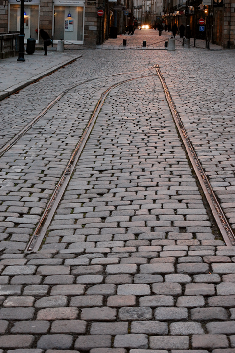 Ancient rails of Rennes tramway, on the Place du Parlement de Bretagne.